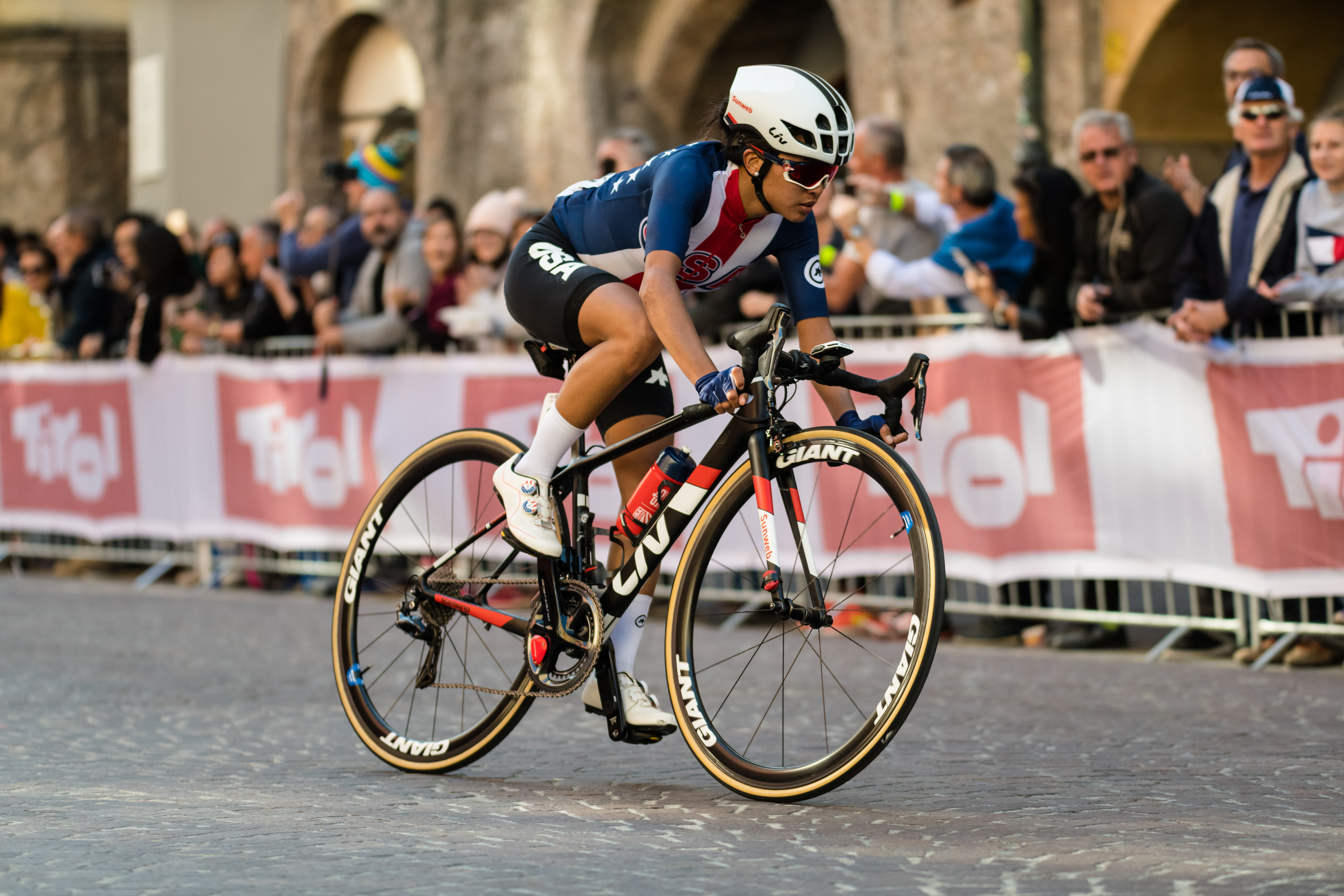 2018 UCI Road World Championships Innsbruck/Tirol Women Elite Road Race. Picture shows: Coryn Riviera of the USA